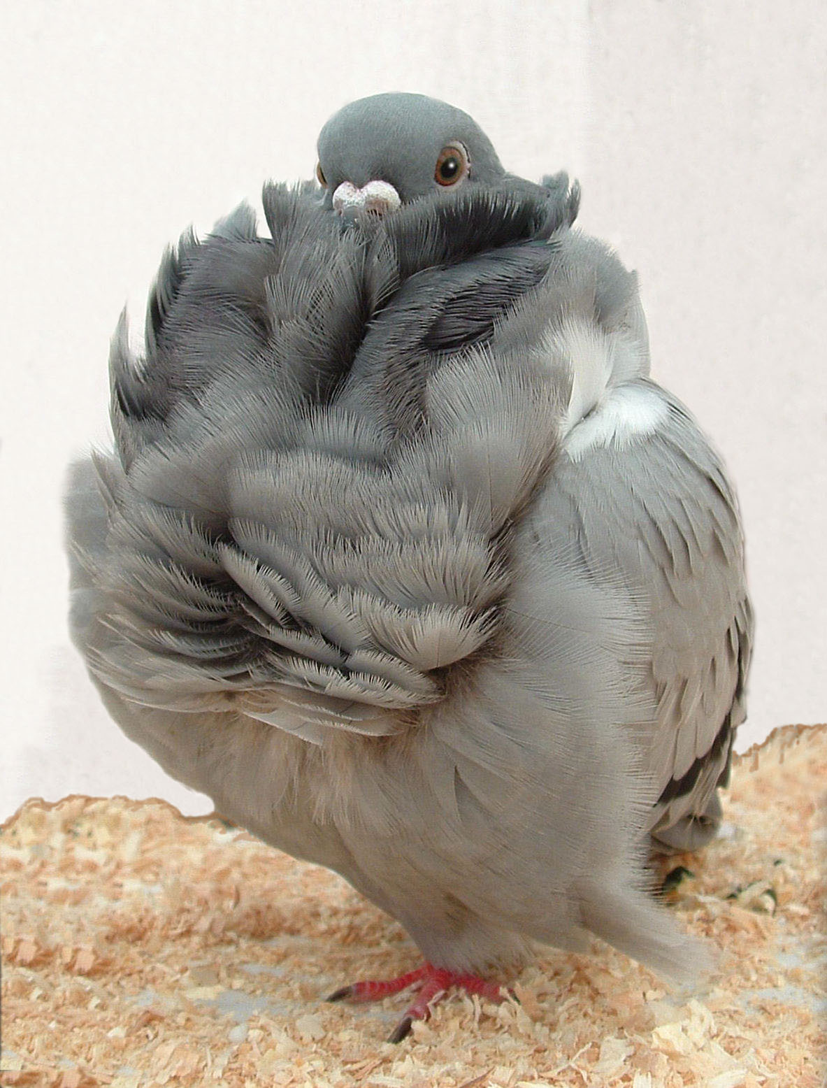 Chinese Owl photo by jackie brooks/jim gifford